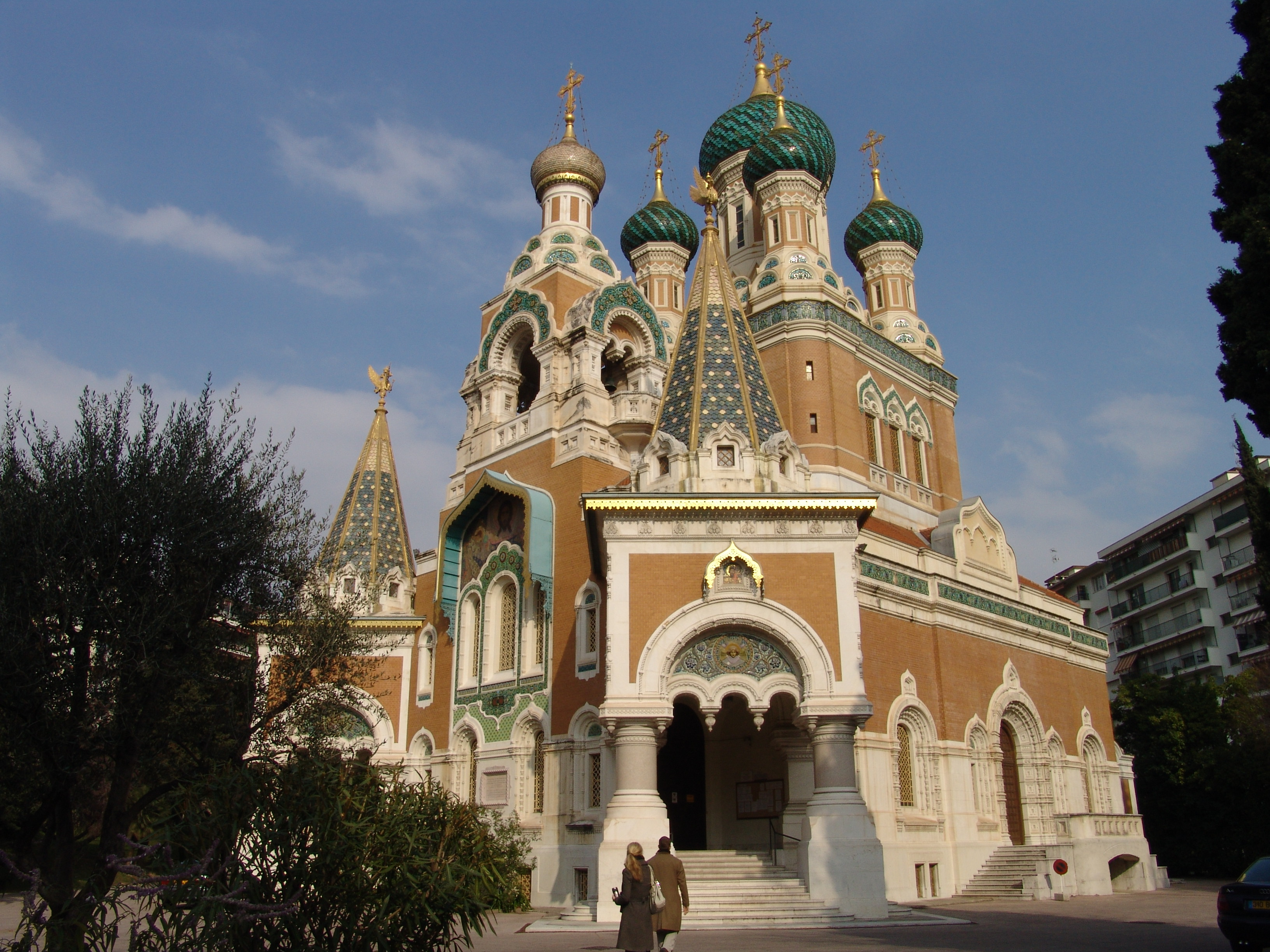 The Russian Orthodox church in Nice, France